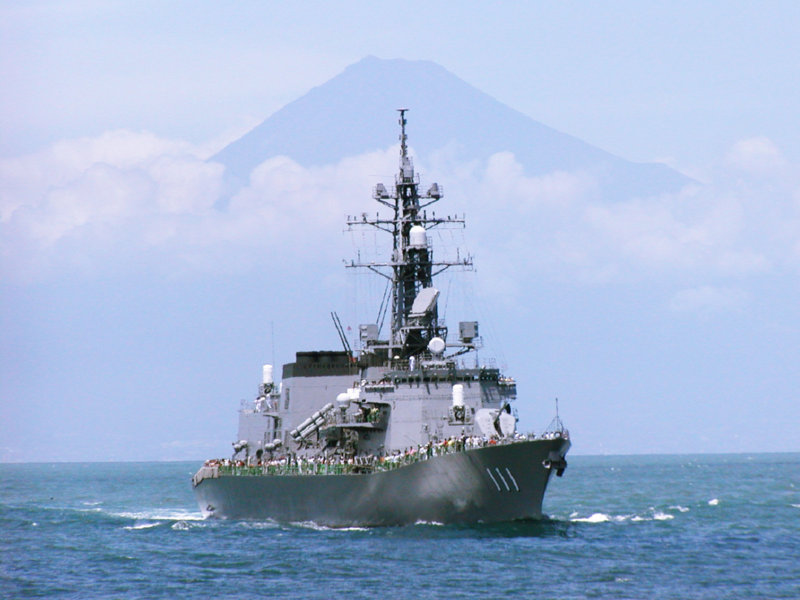 JS Ōnami (DD-111) cruises Suruga Bay with visitors on board.